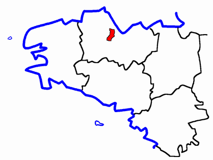 Description: Map for localisazion of cantons of Bretagne region in France Source: made by Hervé Tigier in april 2005 from another large map (published in 1990)